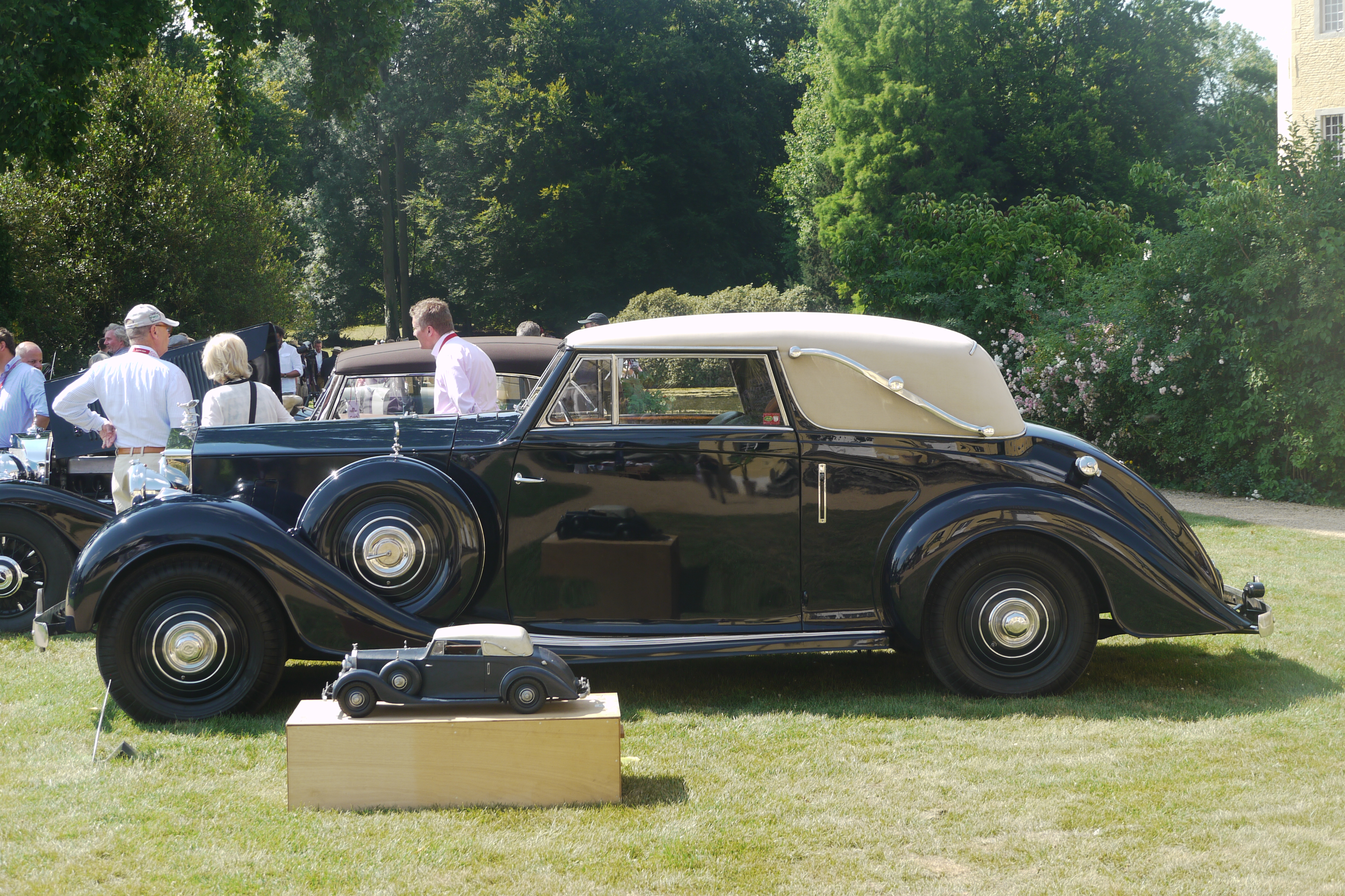 One of seven RR Wraith bodied by Vanvooren. The only Faux Cabriolet built. Last car built by Vanvooren before WWII.